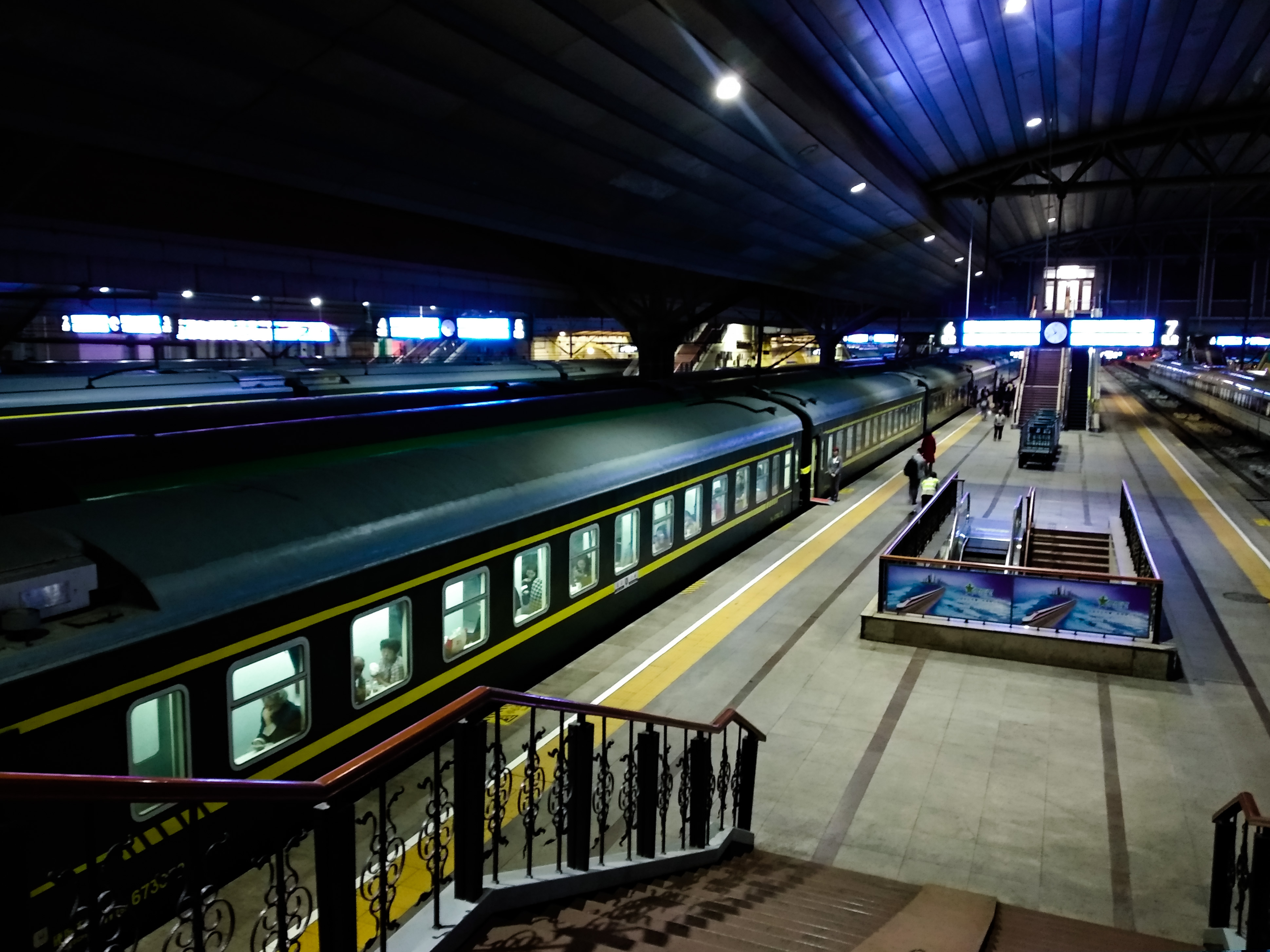 Sleeper train to Shanghai at Beijing Railway Station Beijing April-2019